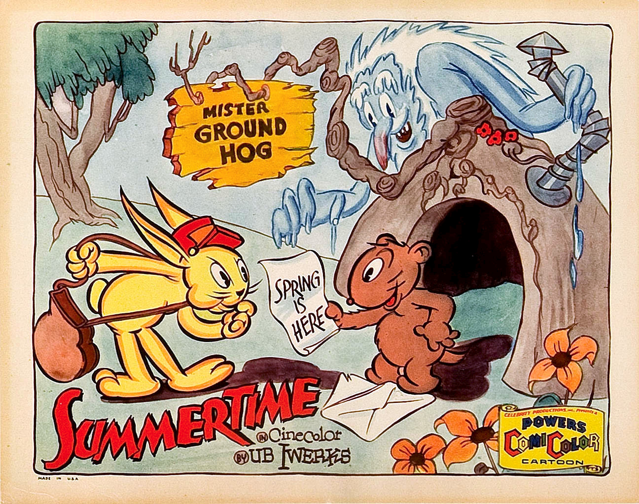 Lobby card for the 1935 cartoon short, Summertime.